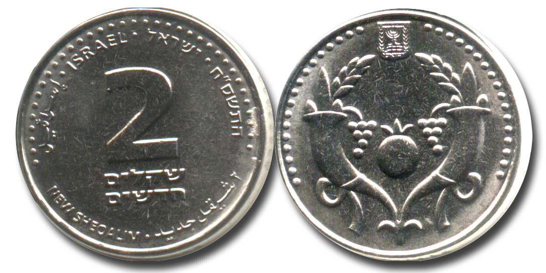 2 New Israel Shekel coin («shnekel»)